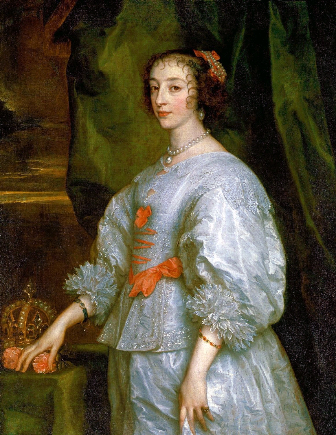 Princess Henrietta Maria of France, Queen consort of England. This is the first portrait of Henrietta Maria painted by Antoon van Dyck in 1632.